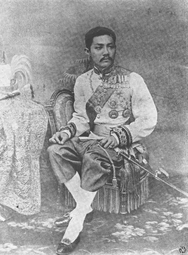 Prince Bhanurangsi Savangwongse, The Prince Banubandhu Vongsevoradej. Son of King Mongkut of Siam